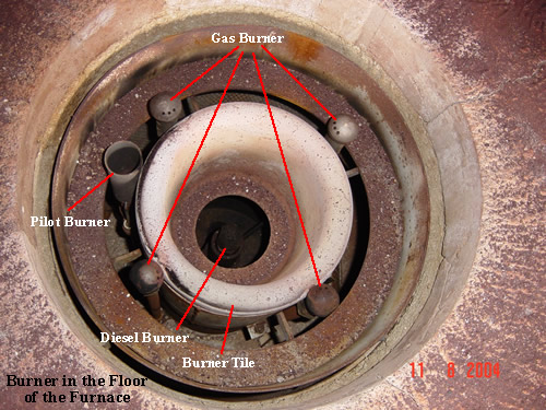 Photographic diagram of a Burner in the Floor of a Furnace